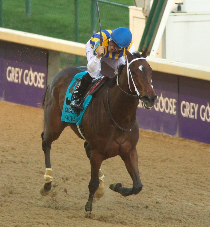 Two-year-old filly, My Miss Aurelia, wins the 2011 Breeders' Cup Juvenile Fillies at Churchill Downs.